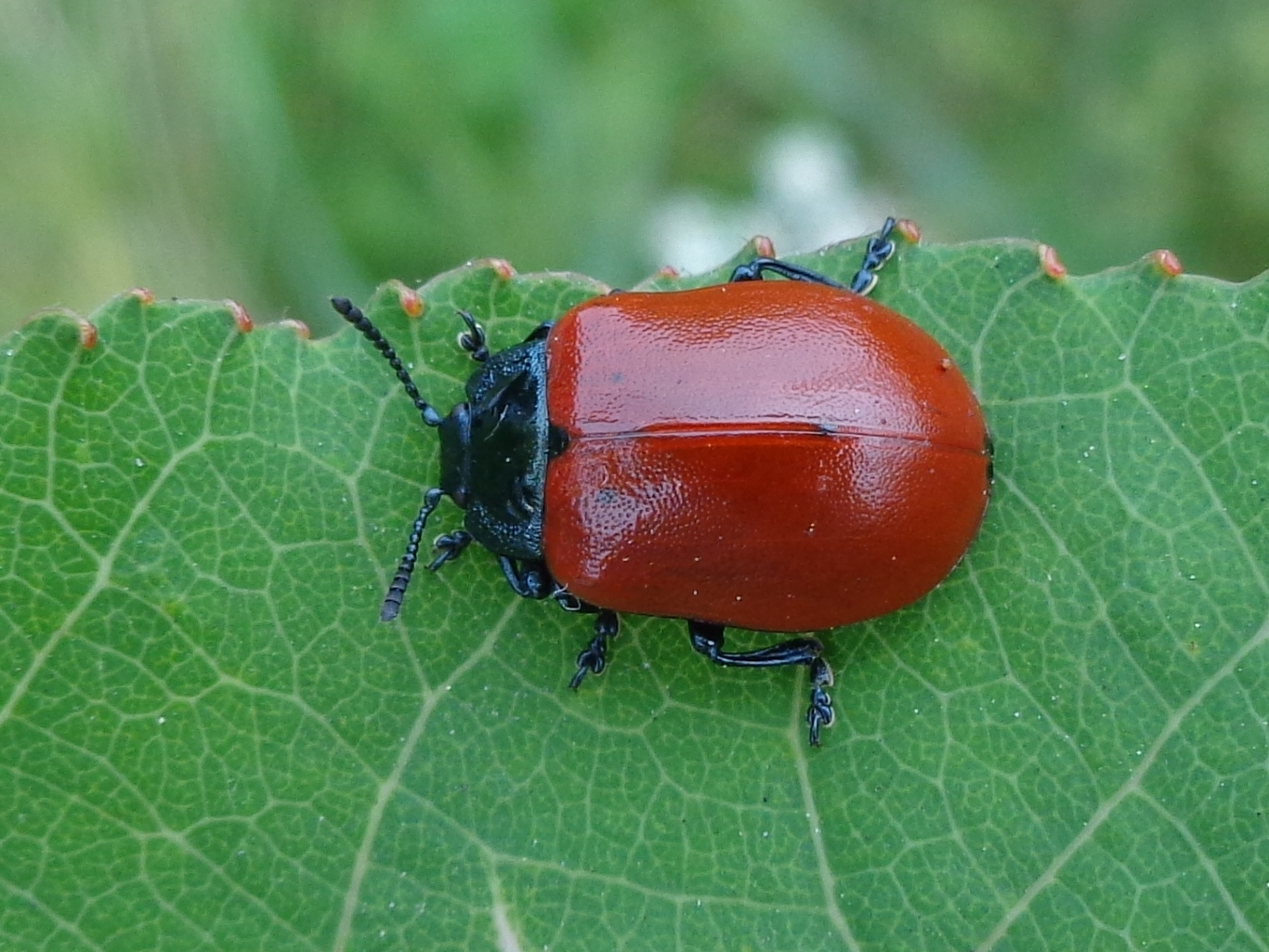 Chrysomela populi. Found in Riga town, Latvia